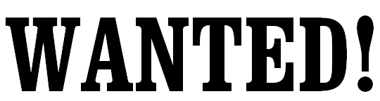 Clarendon (typeface) sample. Made by me, released as GDFL.